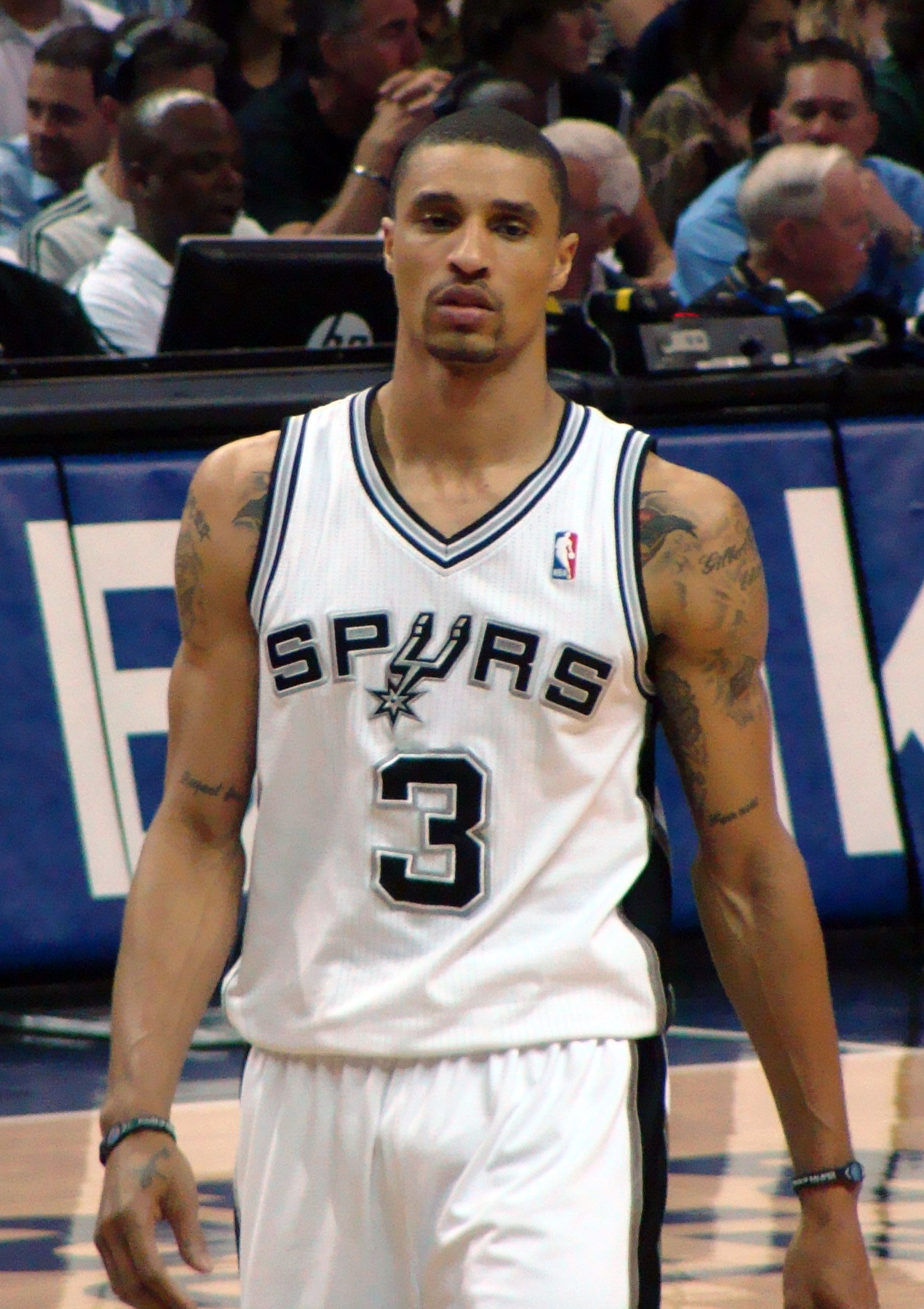 George Hill of the San Antonio Spurs, against the Boston Celtics on March 31, 2011